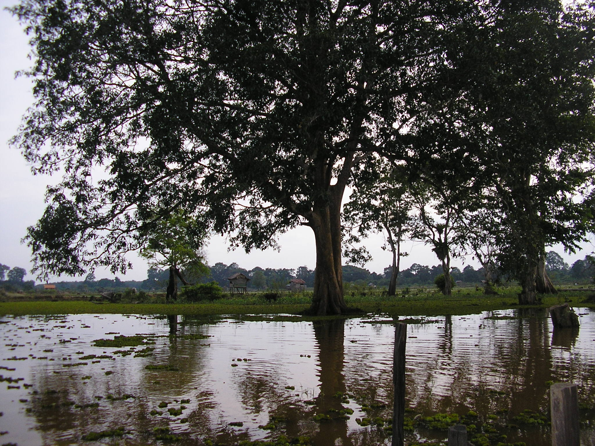 Swamp Area in Batanghari, Jambi (Indonesia) Reuploading because I accidently gave the last file a bad file name. (number list like a digital camera file:)